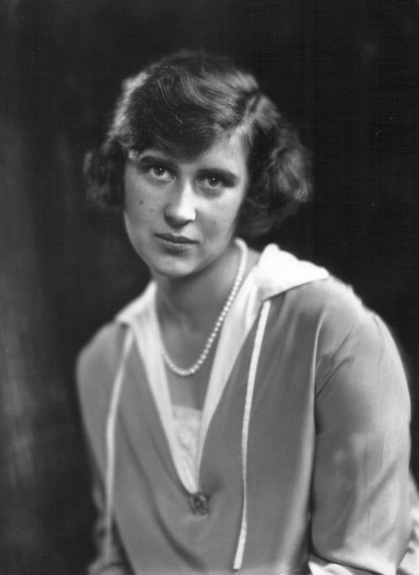 Her Royal Highness Princess Elizabeth of Greece and Denmark, later Countess zu Toerring-Jettenbach (1904-1955)